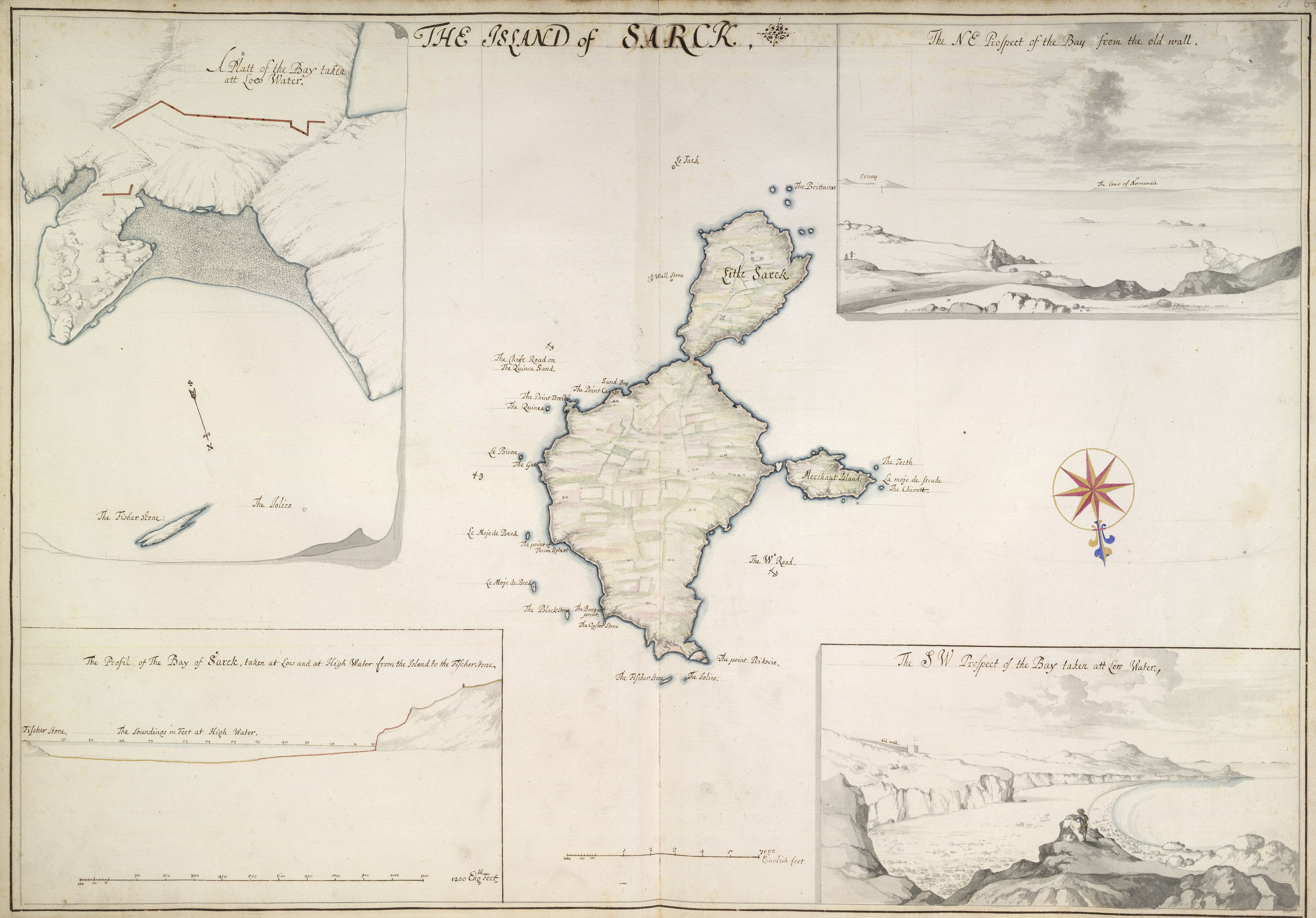 map of Sark, Guernsey, Channel Islands, at scale 1:20,400, North is down, Merchant Island = Brecqhou